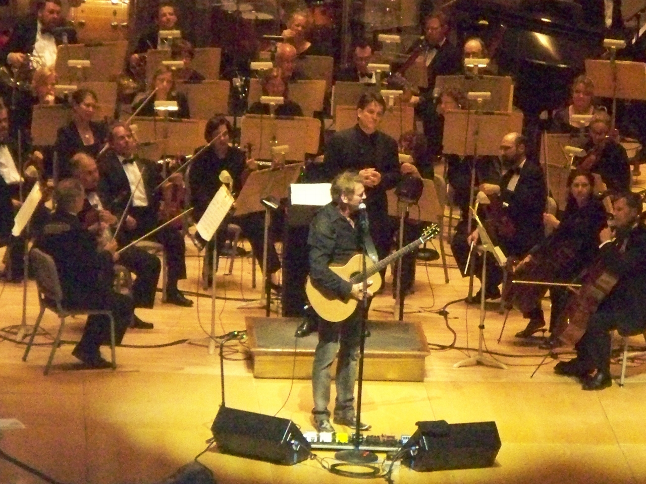 Kenny Loggins With The Boston Pops Orchestra and Keith Lockhart, Boston Pops conductor, standing behind Kenny Loggins--Kenny Loggins of 1970s super duo Loggins and Messina performed with the Boston Pops orchestra in Boston, Massachusetts USA.; June 21-22, 2011.